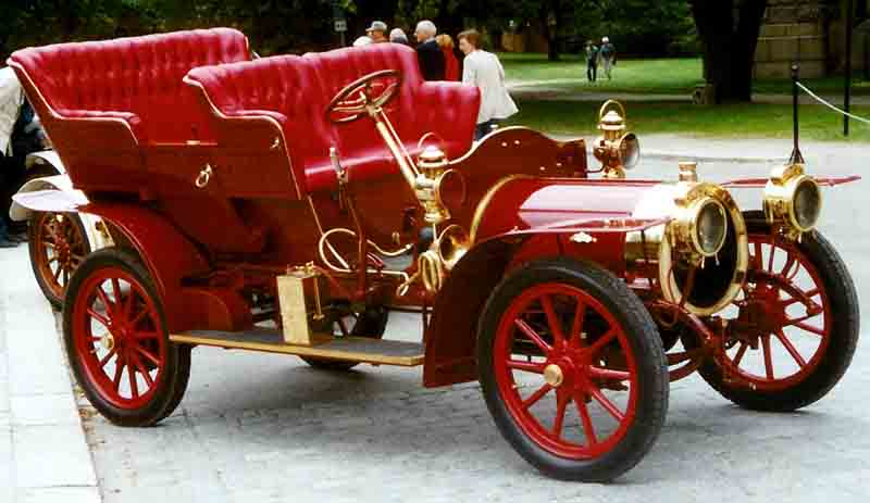 Cottereau 15/18 Phaeton 1906